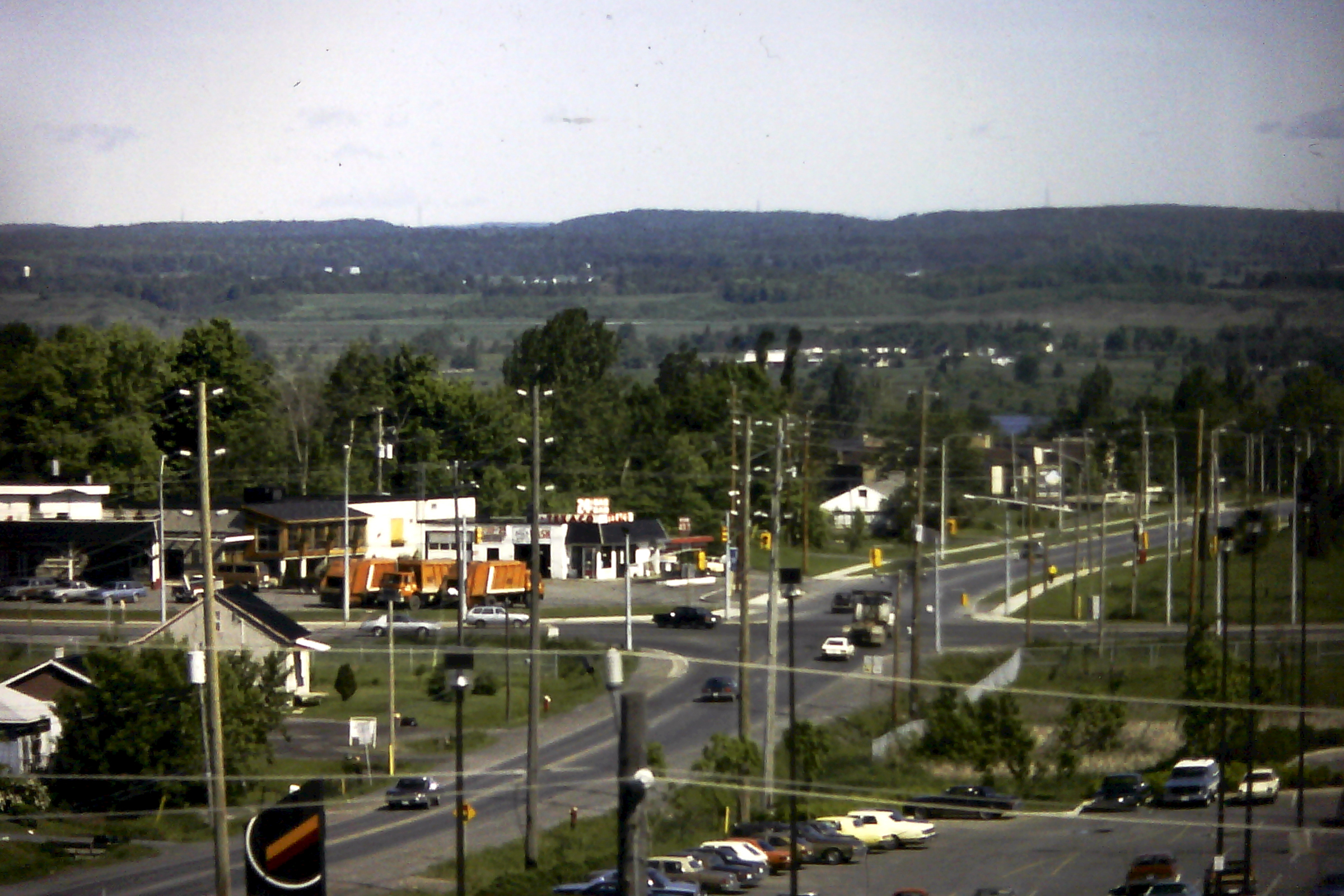 Showing the intersection of Champlain and Highway 17 (today Regional Road 174) as it existed on June 1, 1982, as viewed from the ridge of the Duford hill leading into Queenswood Heights. The southern portion of Champlain was removed in the late 1980's to make way for a massive expansion of the Place D'Orleans Shopping Centre (and the houses on the west side expropriated) up to St. Joseph in the 1988-1990 expansion. The area northwest (upper right) of the intersection is now the OC Transpo Park & Ride, the area to the southwest (lower right) would now be the Place D'Orleans OC Transpo transit station taking into account some realignment during the construction process.